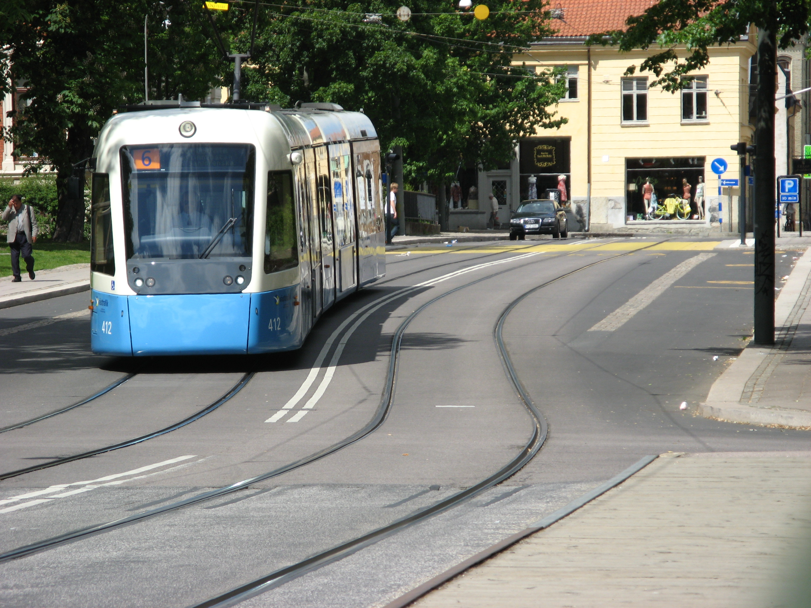 Tram in Gothenburg, no 412